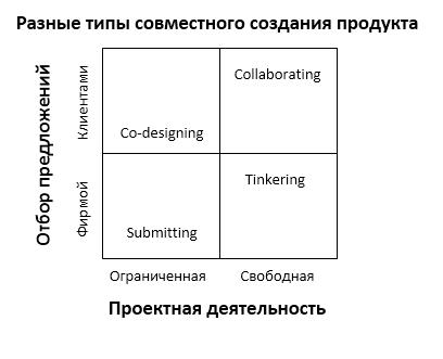 Co-designing, collaborating, tinkering, submitting